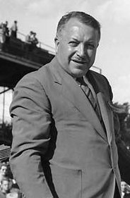 Cropped from image of Miss Toronto Beauty Contest 1948, Woodbine Racetrack : Mayor Hiram E. MacCallum presents crown to Florence Ferriman, Miss Toronto 1948